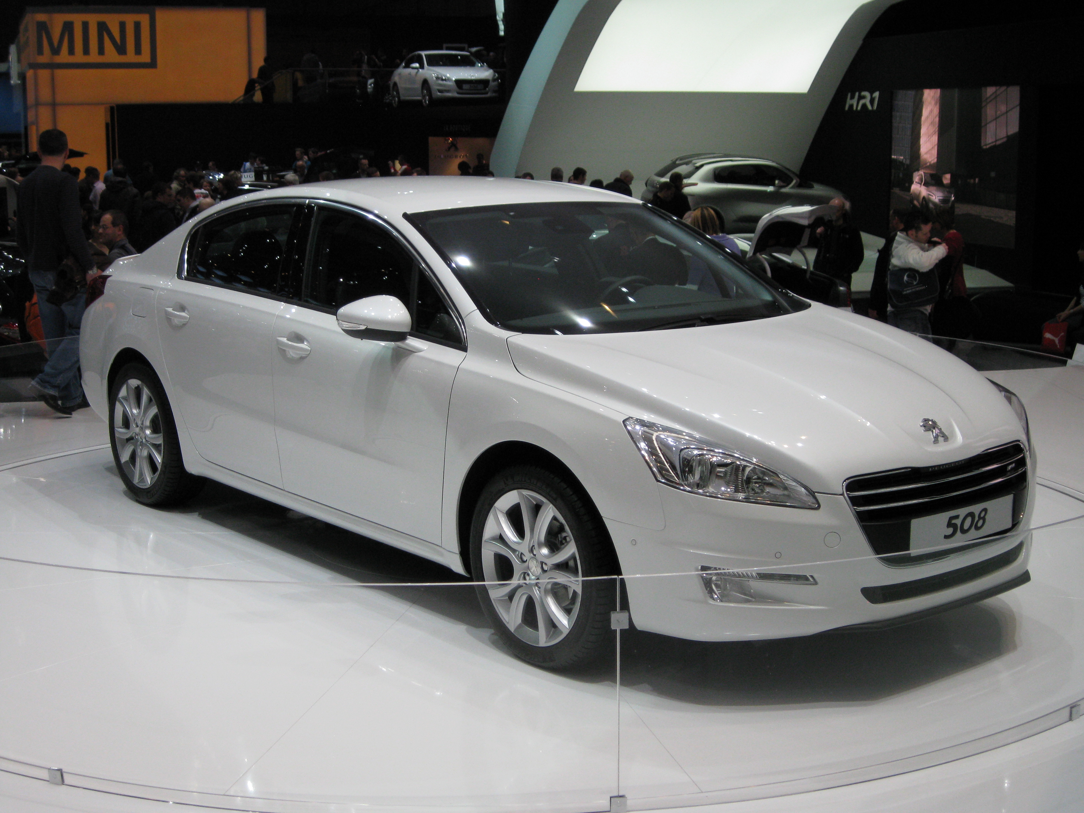 Geneva Motor Show 2011